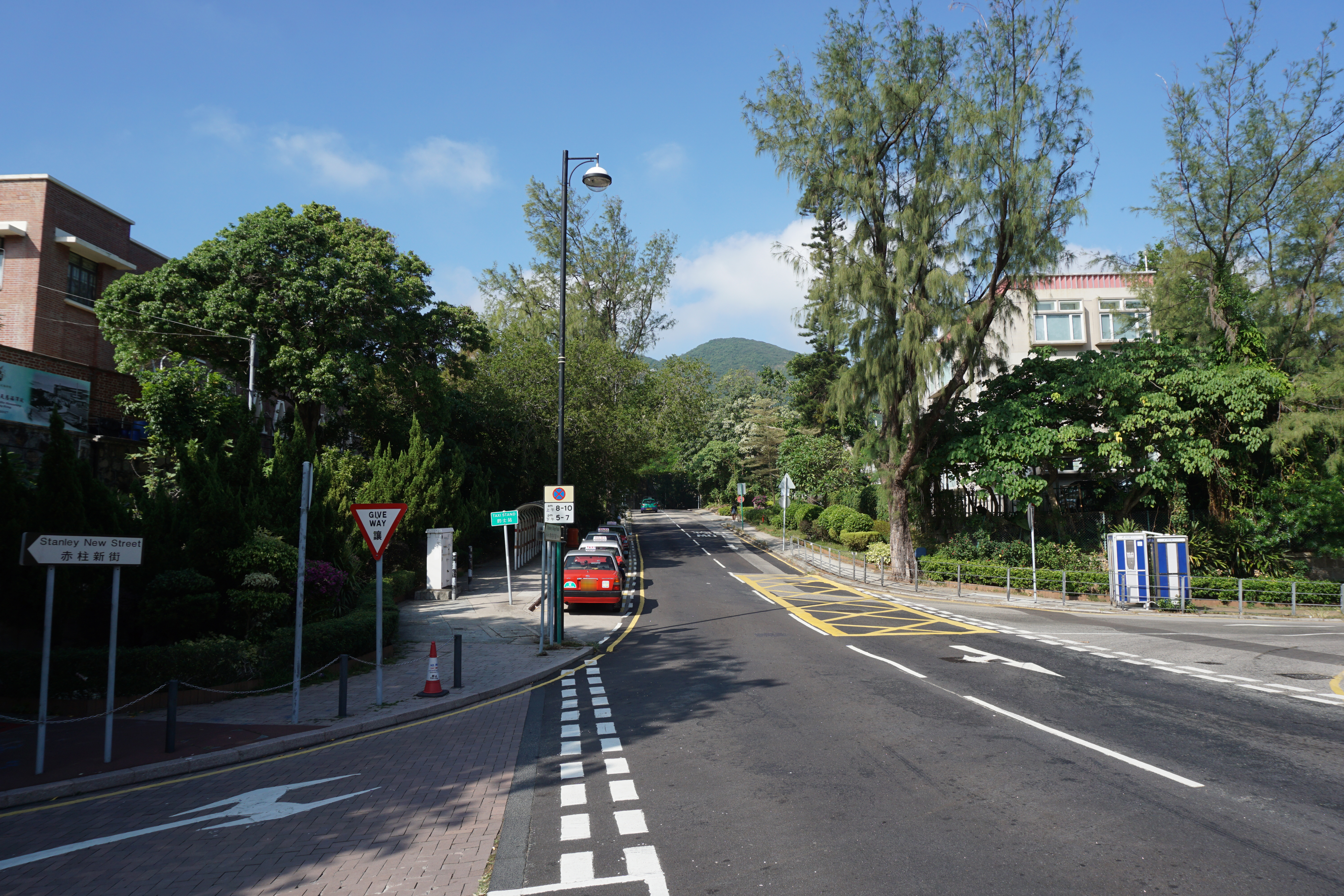 Village Road in Stanley, Hong Kong.